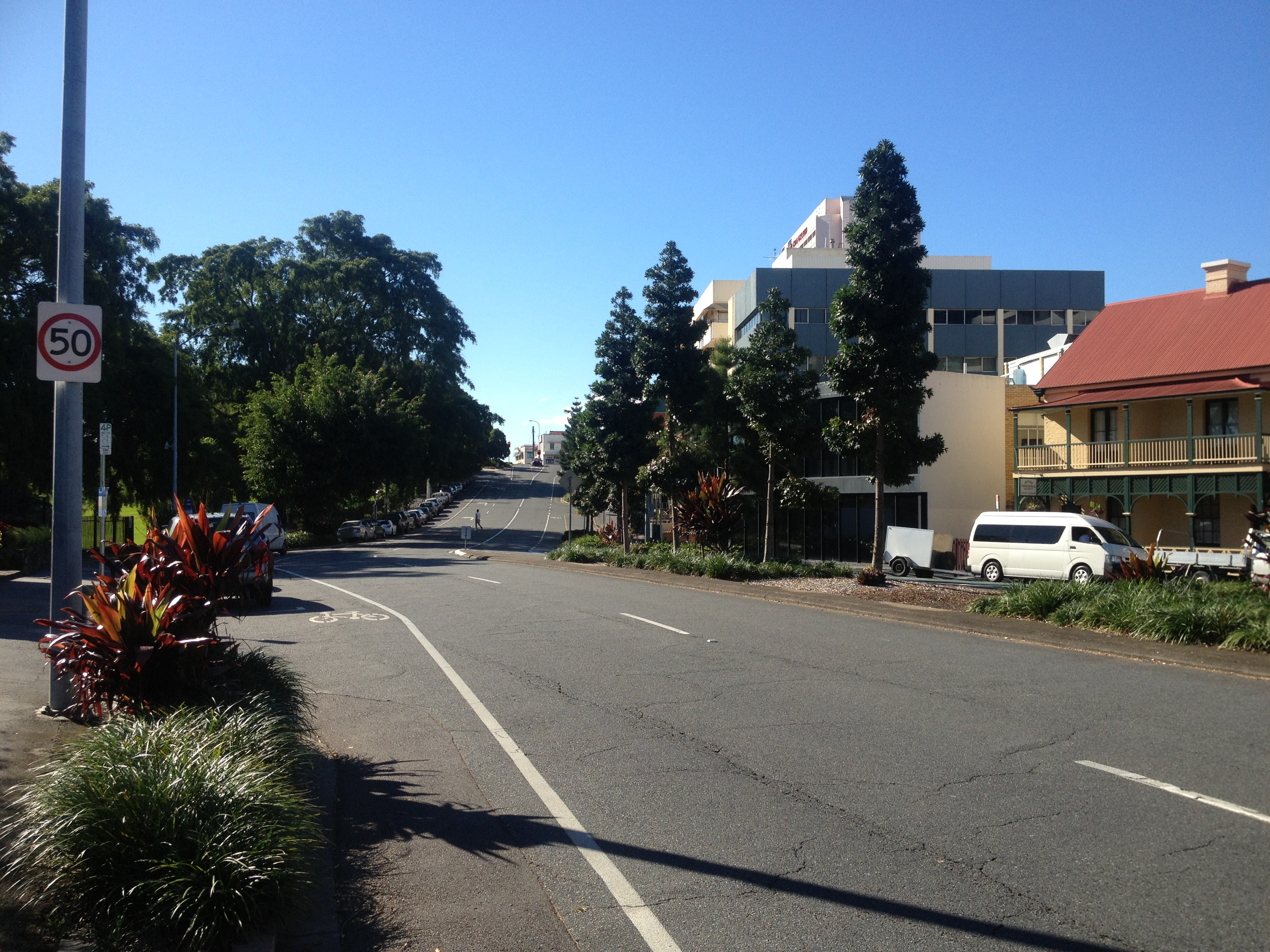 Wickham Terrace, Spring Hill, Queensland 07.2013